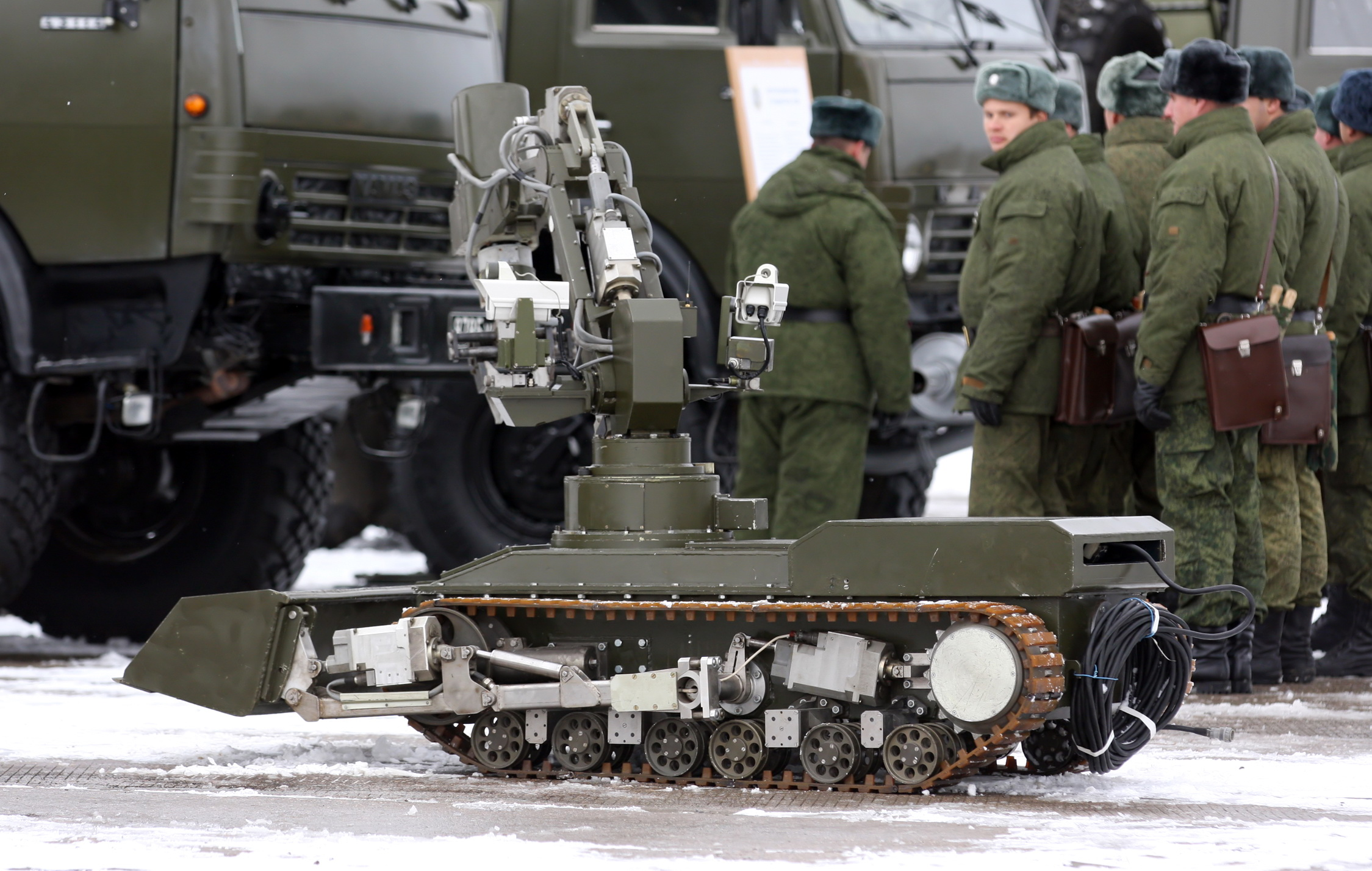 MRK-46 robot